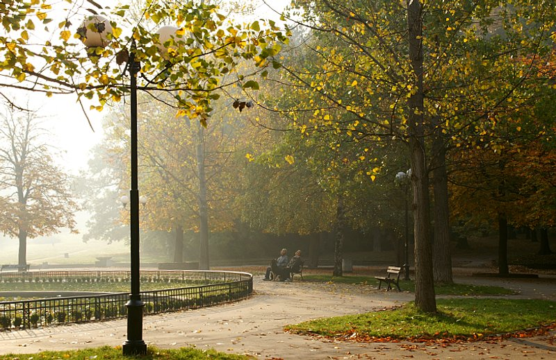 An autumn day in the Borisova garden, Sofia, Bulgaria